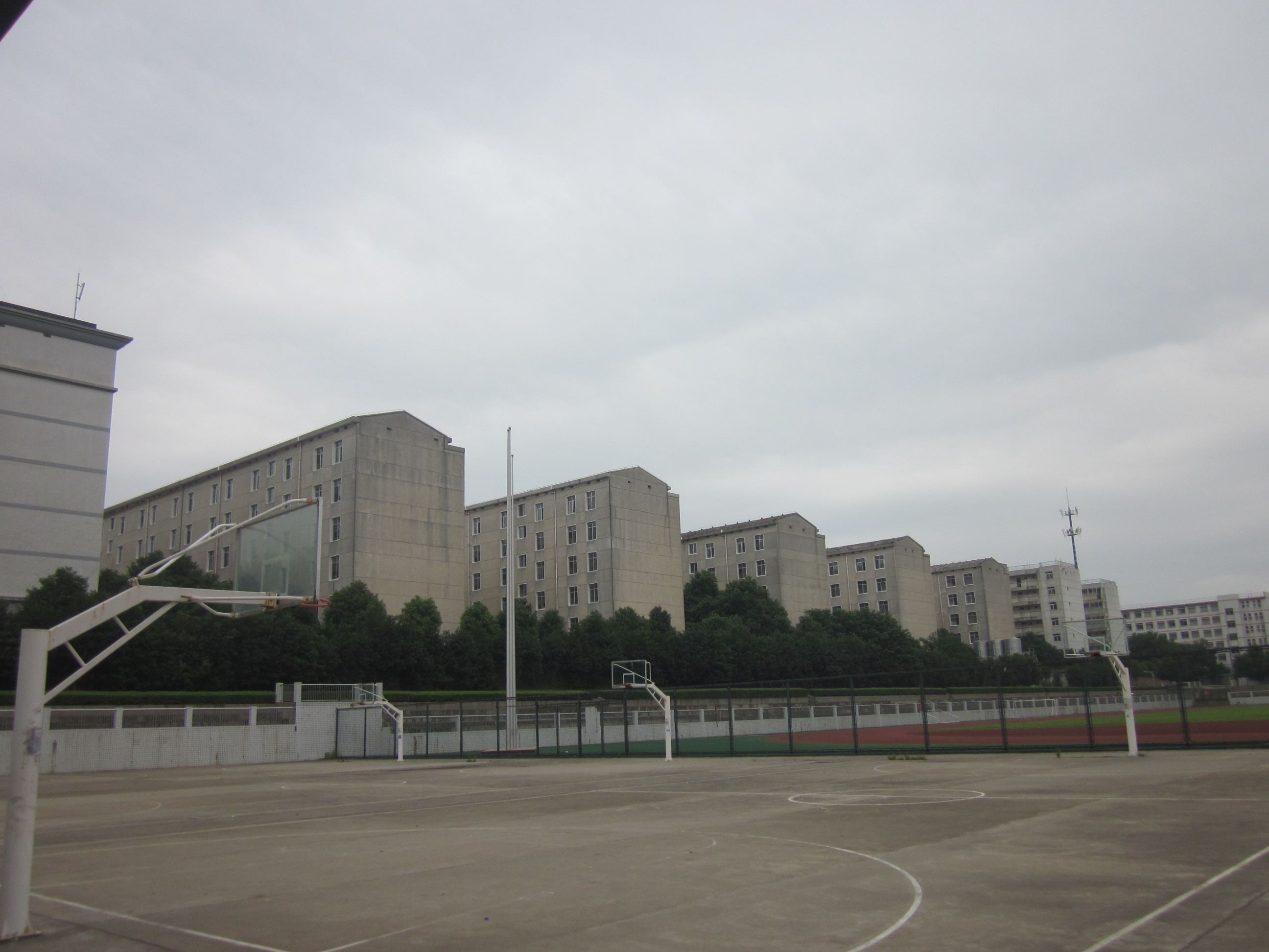 Hunan Agricultural University (Chinese: 湖南农业大学 pinyin: Húnán Nóngyè Dàxué, commonly referred to as HAU or Nongda) is a public research university located in Changsha, Hunan, China.